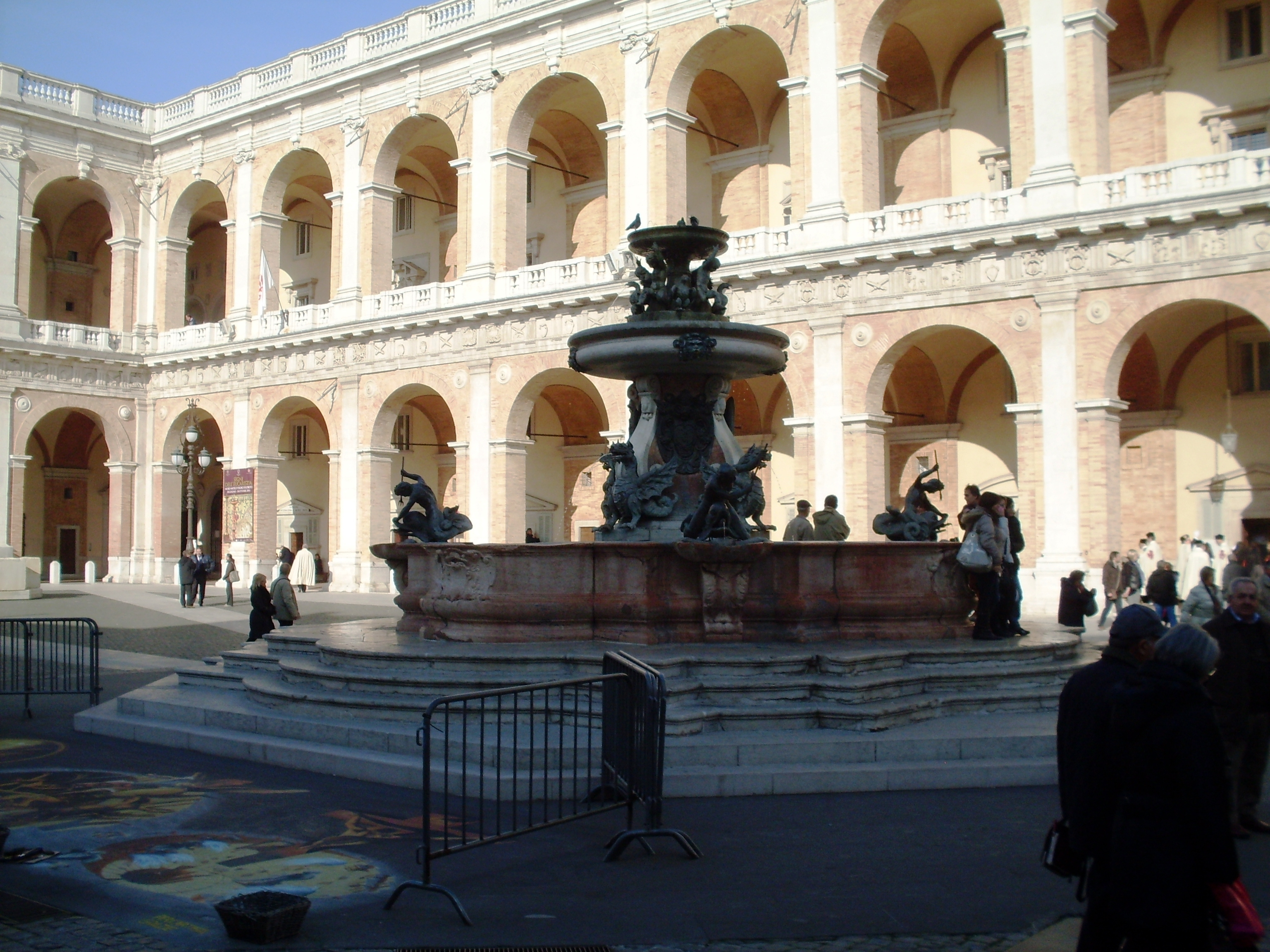 Italy Loreto fountain